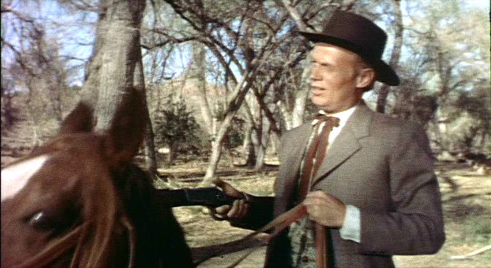 Richard Widmark in a screenshot from the trailer for the film Broken Lance (1954).